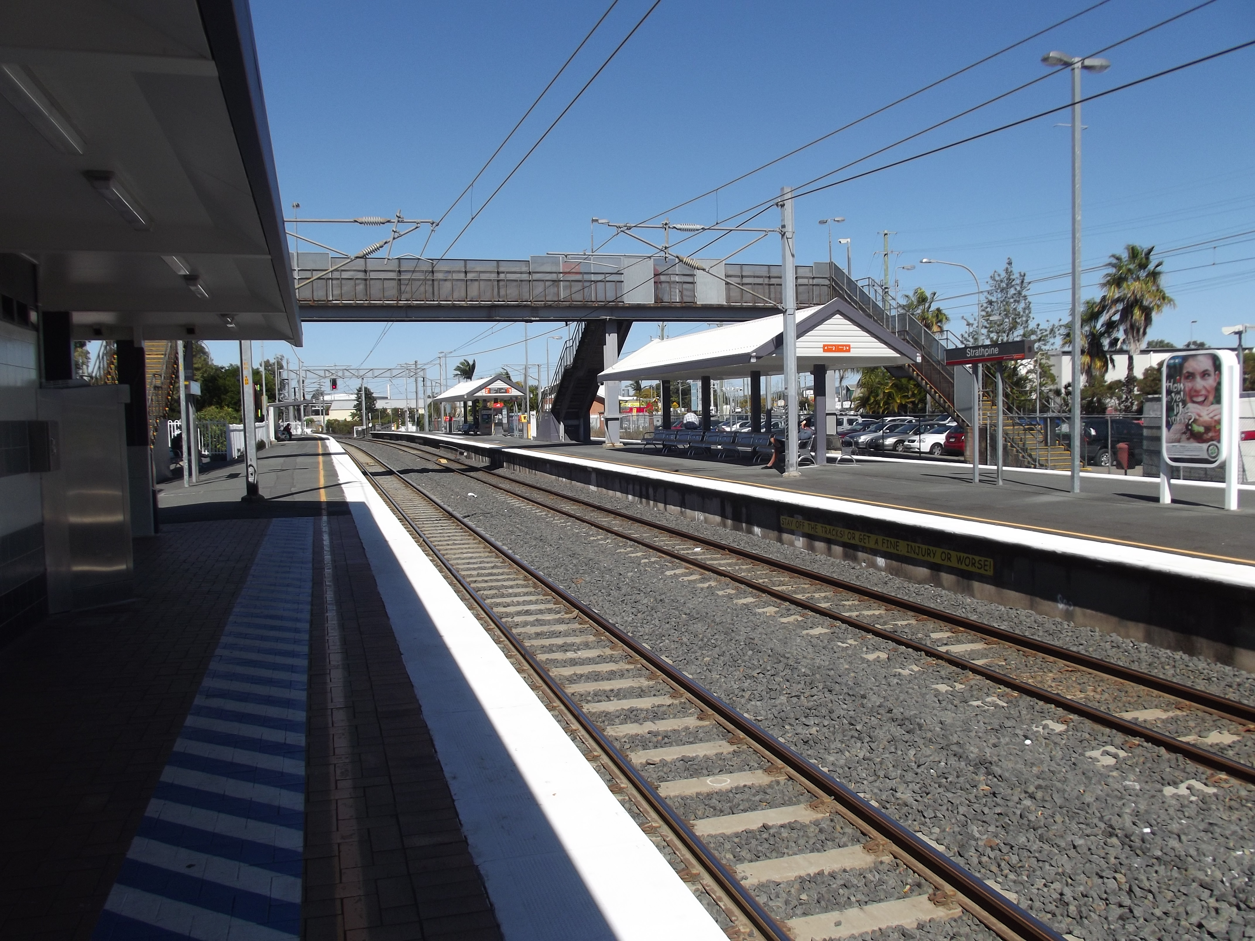 Strathpine station, on the Caboolture line.